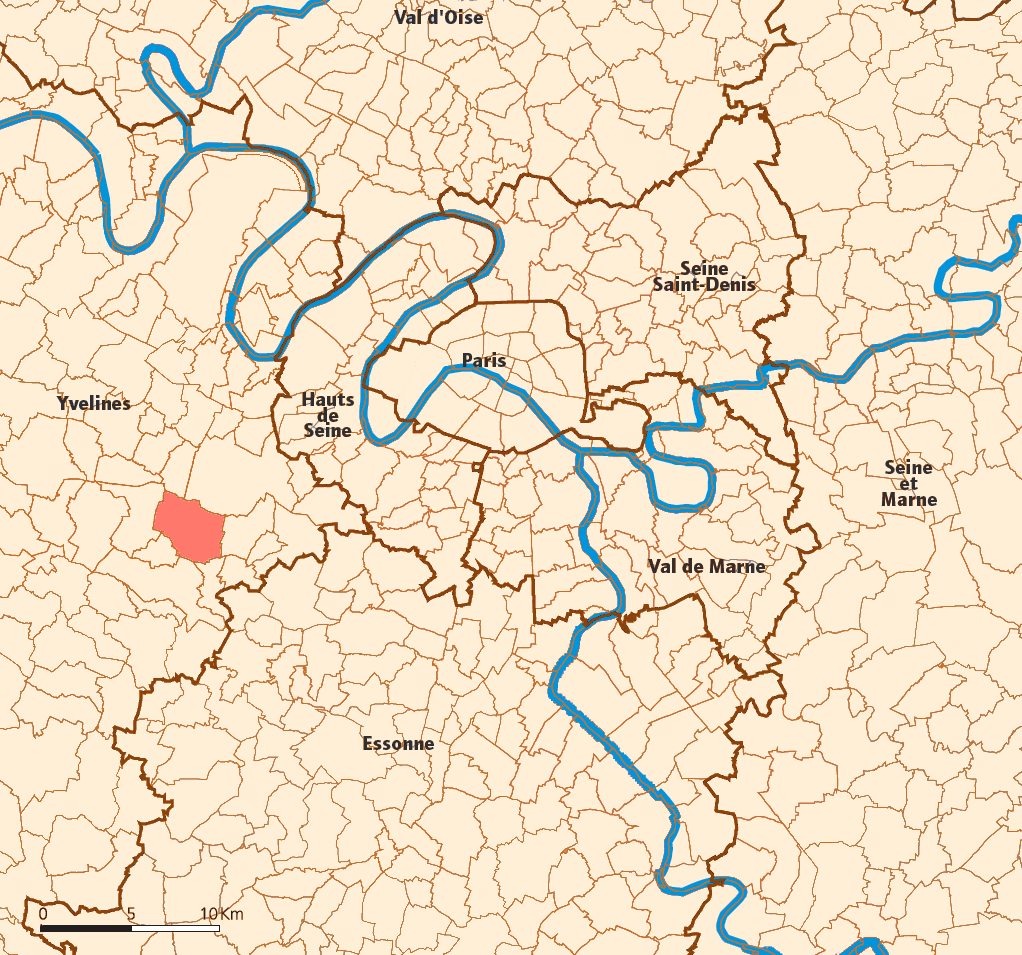 Created map myself.